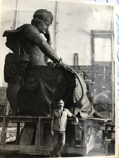 Shah Ismail Khatai